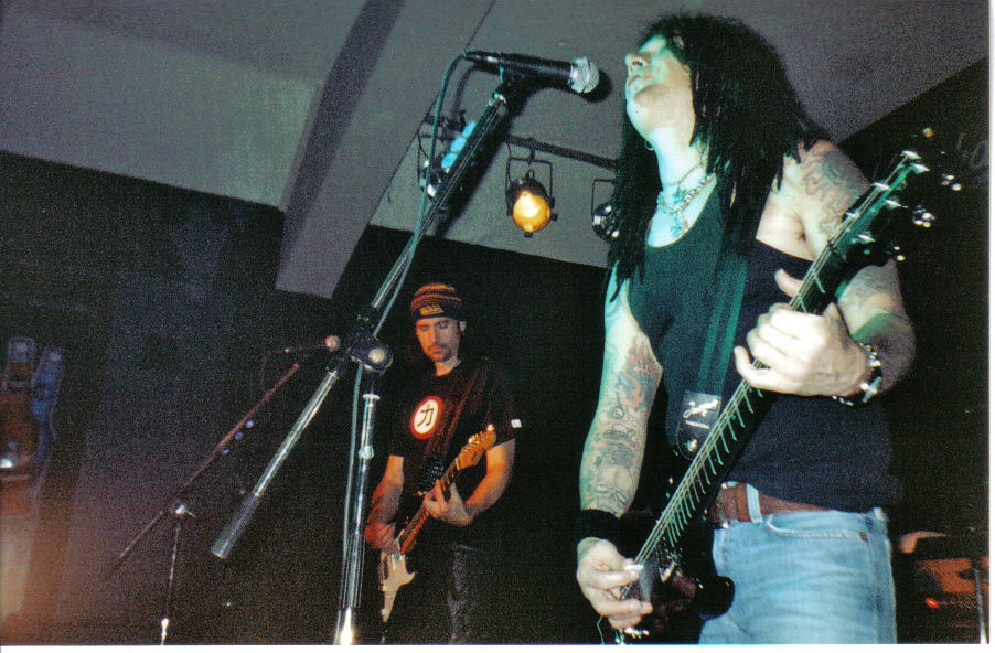 Bruce Kulick and John Corabi